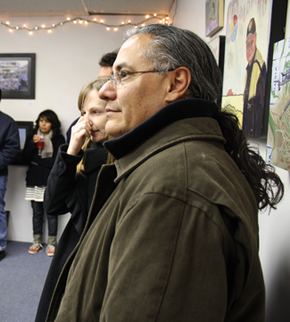 Marcus Amerman (Choctaw Nation of Oklahoma), bead artist, glass artist, fashion designer, painter, performance artist